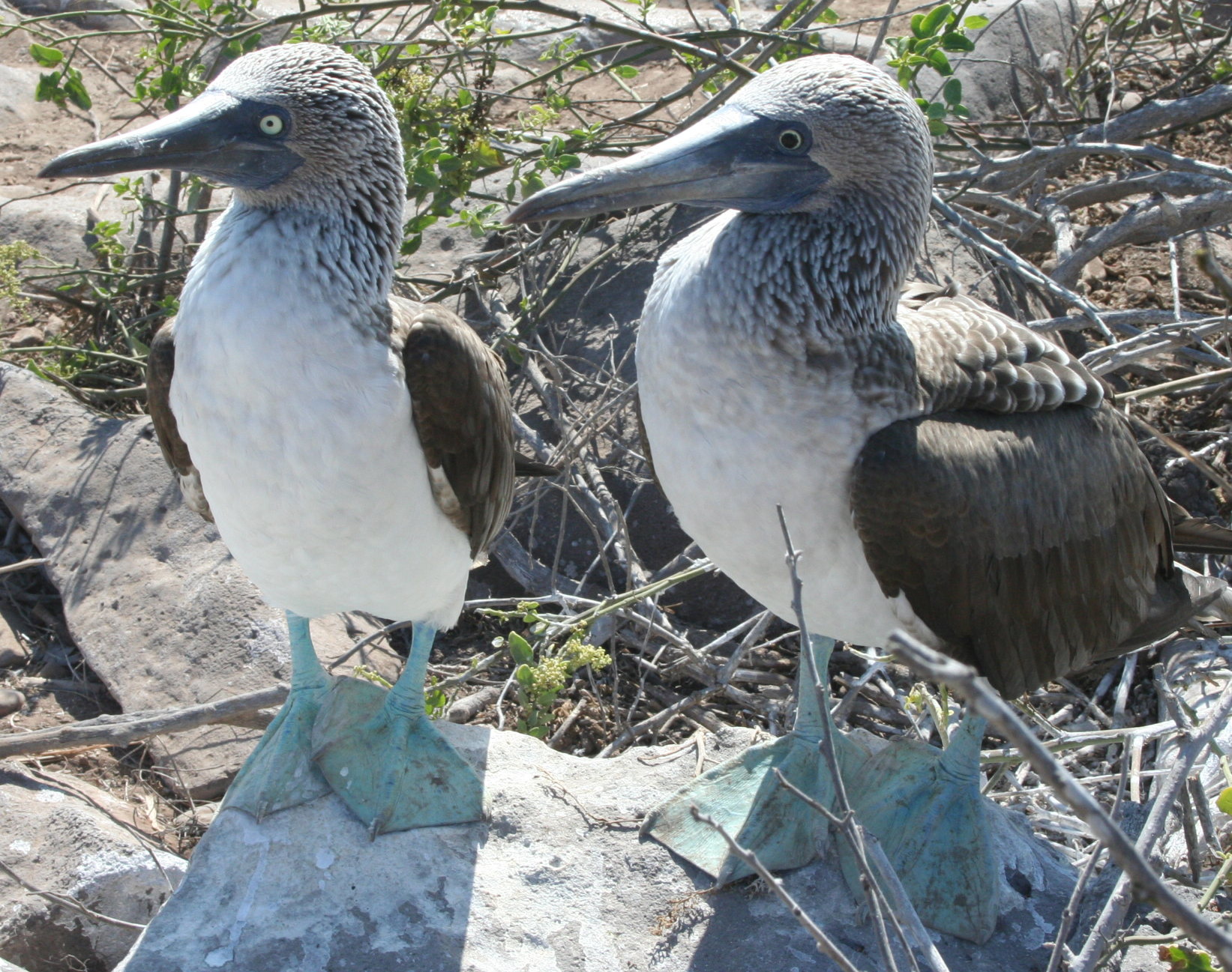 Two Blue Footed Boobies. The male (left) has a smaller pupil, lighter colored feet, and is smaller in size than the female. This image was taken near Punta Suarez on Española Island, Galápagos Islands, Ecuador.